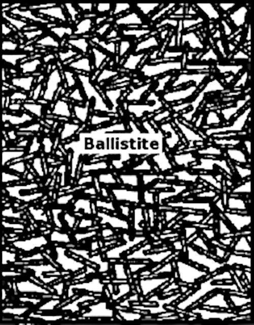 Schematic ballistite charge